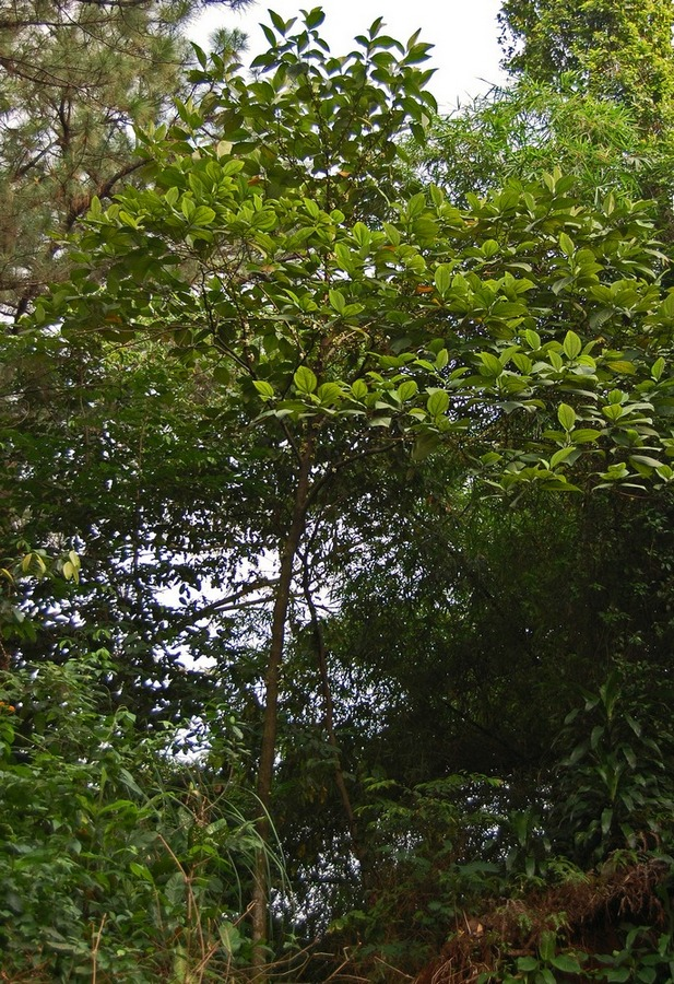 Bellucia axinanthera habits, about 8 metres high. Bogor, West Java, Indonesia